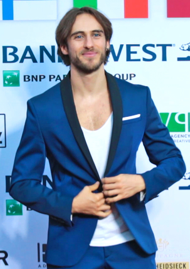 Simone Borrelli attending Eddy's Premier at American Cinematheque in Hollywood for the European Film Festival - Starring Europe 2015